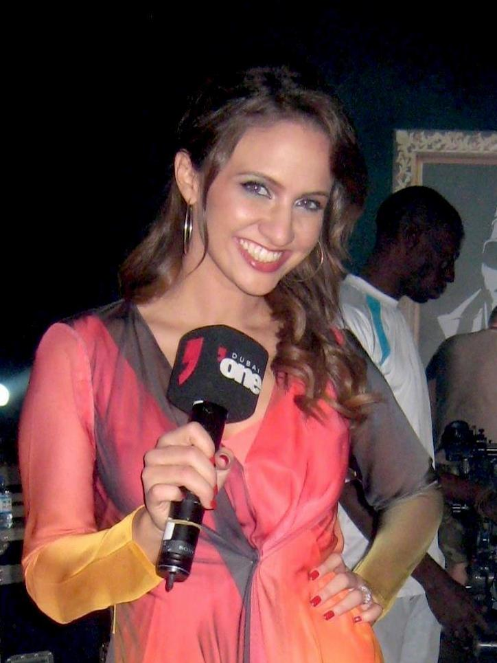 dina butti posing at imran khan behind the scenes